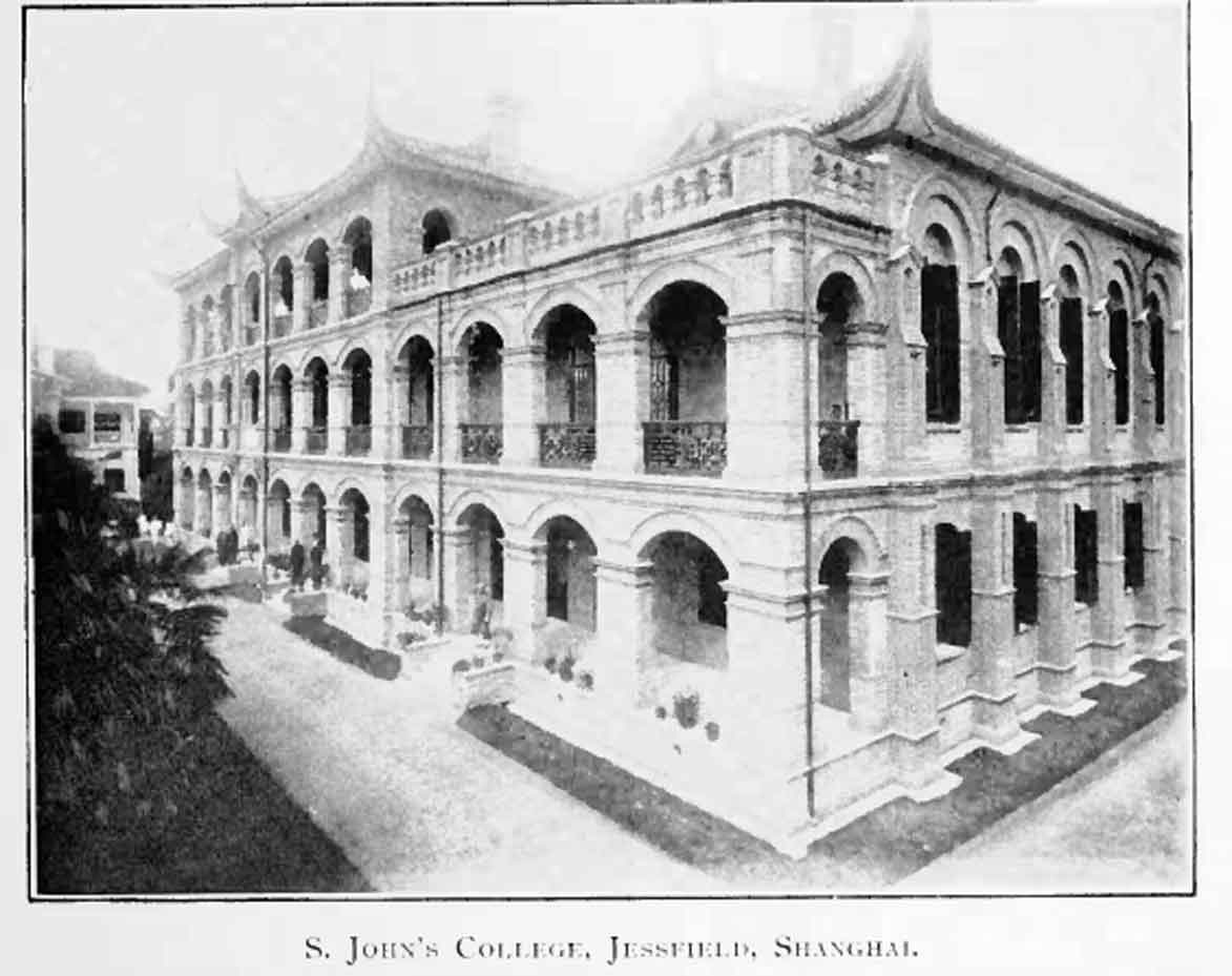 Saint John's University in Shanghai, China.